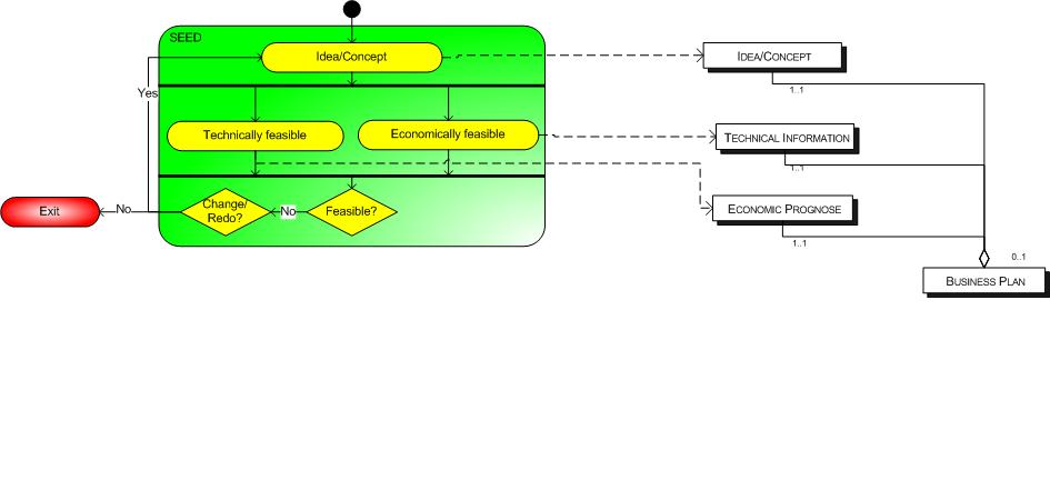 Process data model A